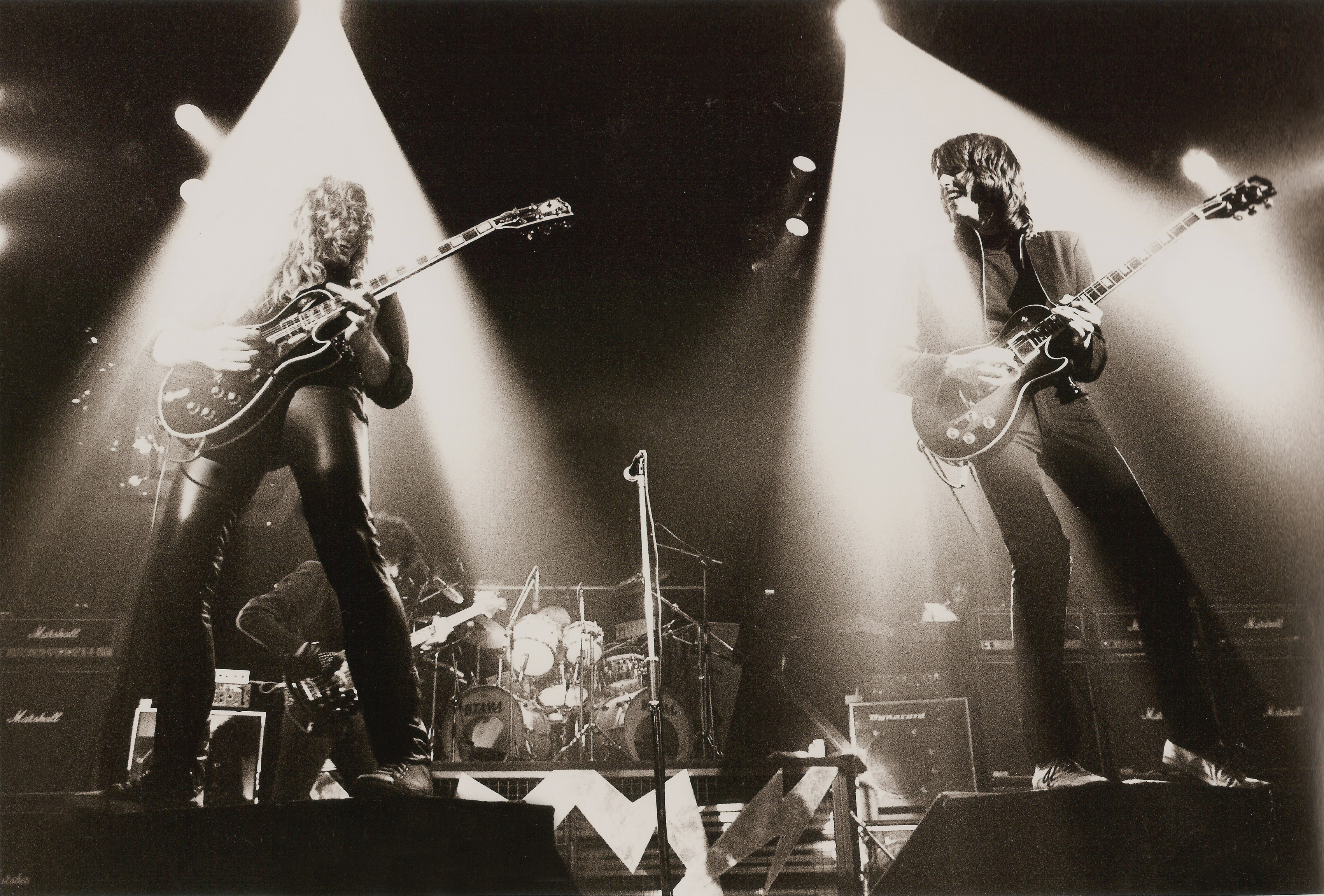 Copyright, Harry Potts